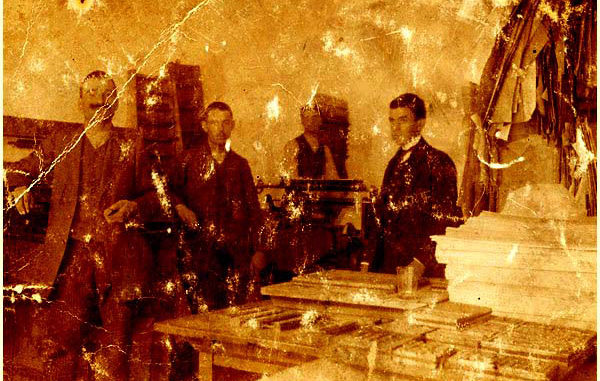 Снимка от вътрешността на царибродската печатница на Георги Минев и Михаил Хаджиев в гр. Цариброд от началото на XX век